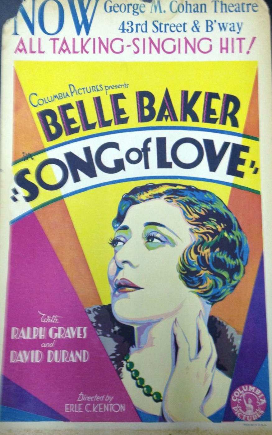 Window poster for the American musical film Song of Love (1929). There are no copyright marks on the item. At bottom right is Printed in USA.